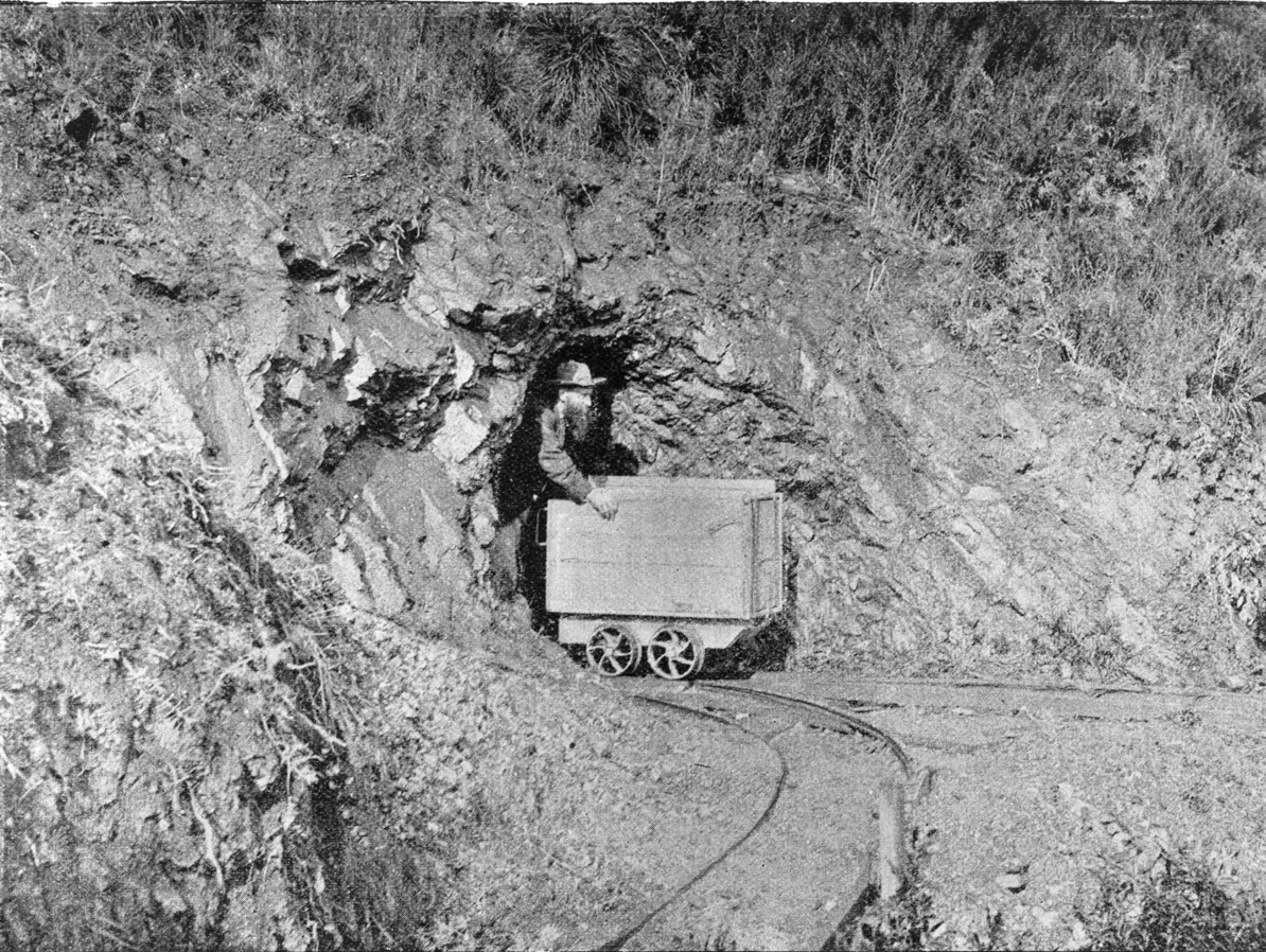 Gold miner with cart emerging from a New Zealand gold mine. Extended information on origin webpage reads: Photographer: New Zealand Graphic Date: 1895 Date Period: 1890-1899 Description: Showing Mr Goldsworthy emerging from the Irene Tunnel at the Try Fluke Mine, Kuaotunu Subjects: Kuaotunu; Try Fluke Mine; Gold Mines; Gold mining; Goldsworthy, Mr; Railway trucks Caption: [Mr Goldsworthy at the Try Fluke Mine, Kuaotunu] Related ID's: Class No: 995.141 K95 (3)